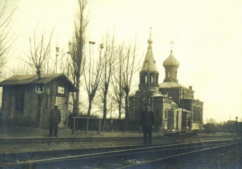 Orthodox church in Łapy